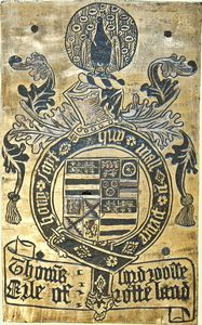 Garter stall plate of Thomas Manners, 1st Earl of Rutland, 12th Baron de Ros (c.1497-1543), KG, nominated as a Knight of the Garter in 1525. Inscribed: Thom(a)s Lord Roosse, Erle of Rotteland. Above the escutcheon, circumscribed by the Garter, is the crest of Manners: A peacock in pride. The arms are: quarterly: 1 and 4, or, two bars azure a chief quarterly of the last and gules, on the 1st and 4th, two fleurs-de-lis or, on the 2nd and 3rd, a lion passant gaurdant or (Manners); 2, a grand quarter consisting of 1, gules, three water bougets argent (Ros) 2, azure, a Catherine wheel or (Belvoir) 3, gules, three Catherine wheels argent (Espec) 4, argent, a fess between two bars gemels gules (Badlesmere) 3, a grand quarter consisting of 1, gules, three lions pasant guardant or, within a bordure argent (Holland, Earls of Kent) 2 and 3, argent, a saltire engrailed gules (Tiptoft) 4, or, a lion rampant gules (Edward Charleton, 5th Baron Charleton of Powys (1370-1421))